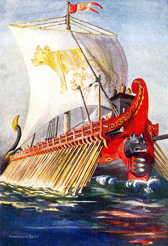 This book tells the story of Rome from the perspective of a traveler and explains many of the customs and mores of Rome as well as providing an abbreviated history. Much of the history is told by discussing important landmarks and sights. It is a social history and a geographical handbook more than a conventional history.